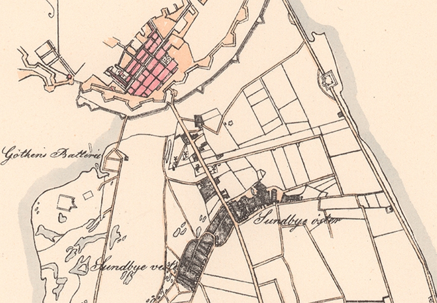 Amagerbrogade in Copenhagen seen on an old map.